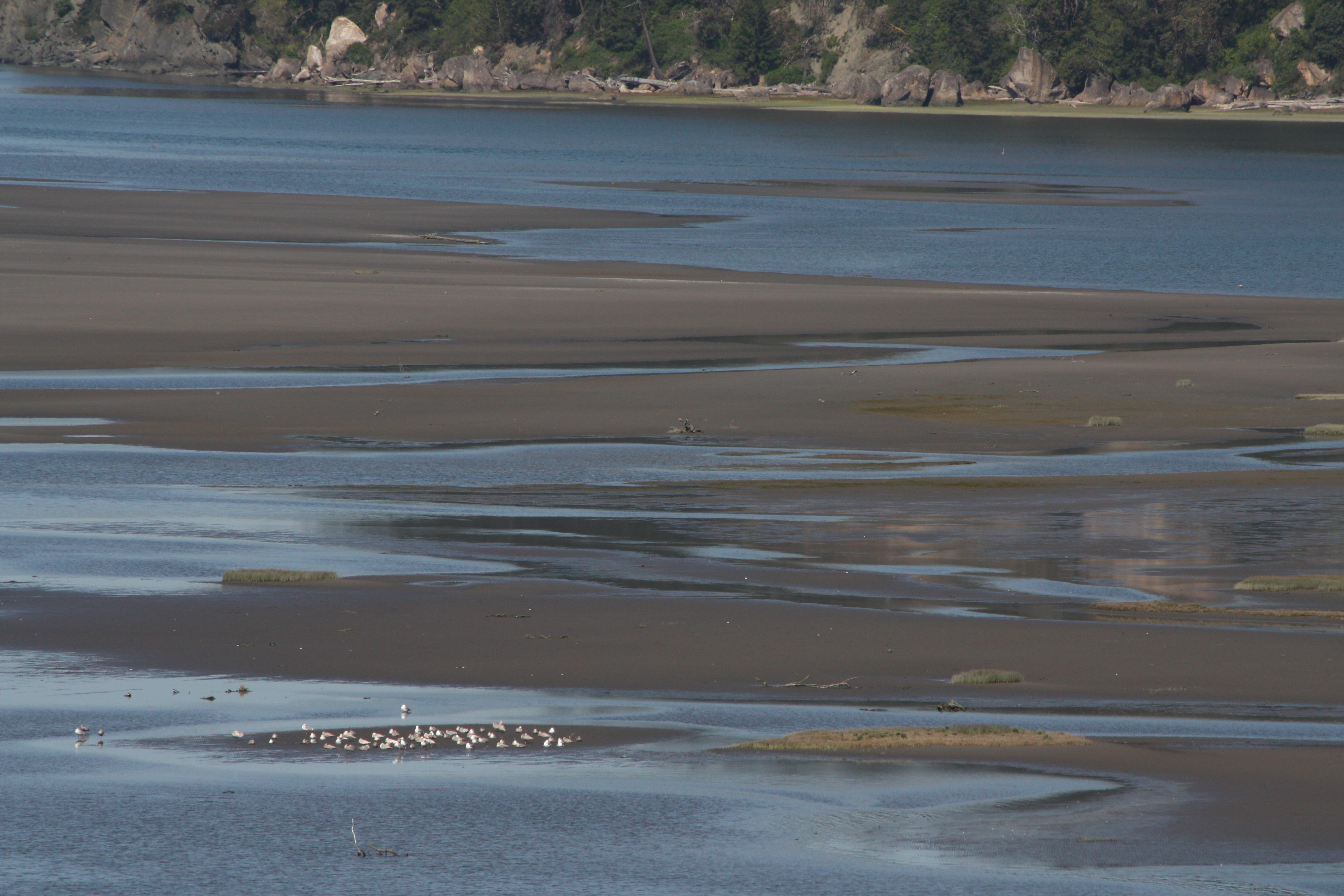 Skagit Bay mudflats; Larus sp.; Ika Island (Washington) behind